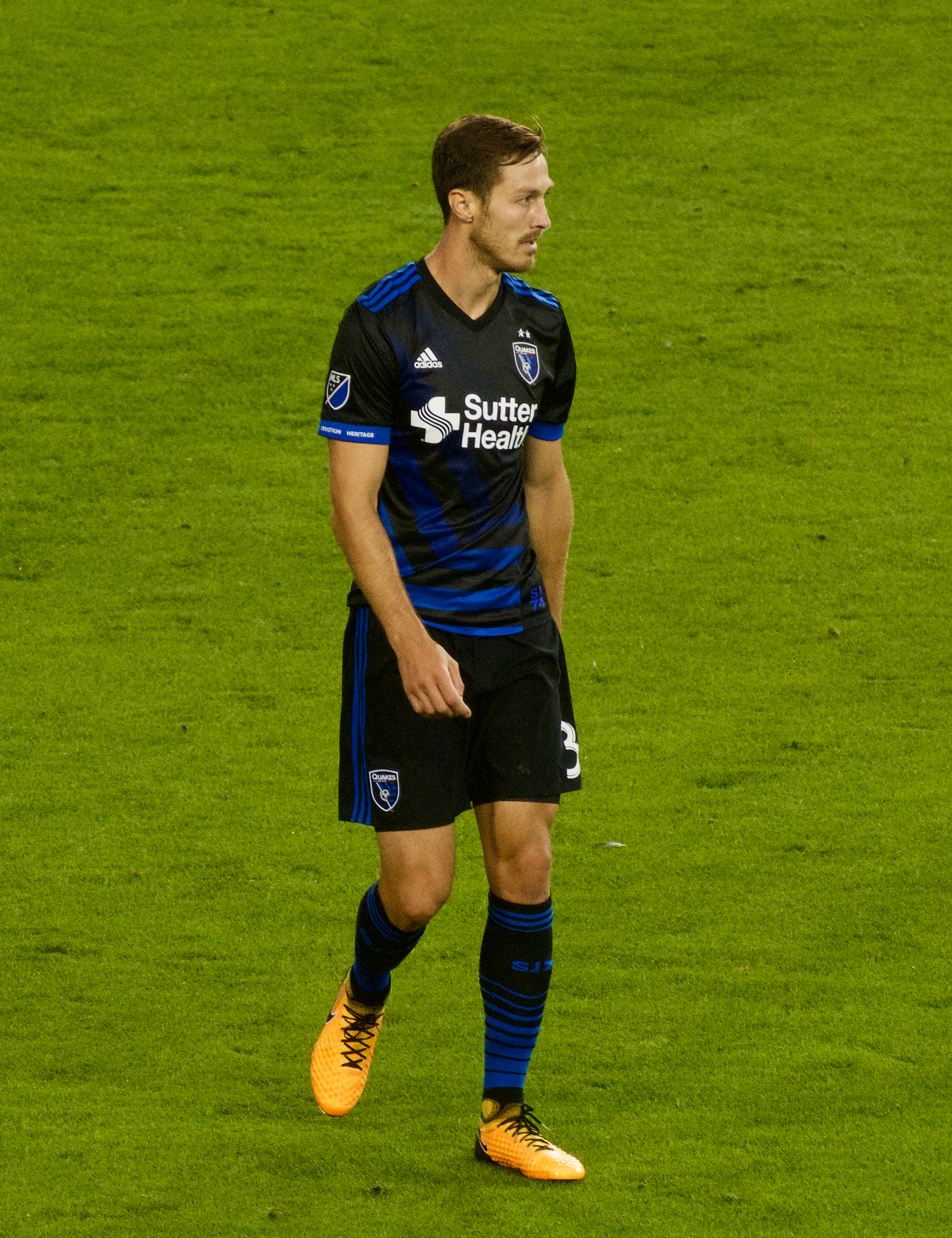 François Affolter playing for San Jose Earthquakes at Avaya Stadium on 19 August 2017.